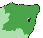 Image showing the location of Drum Castle within Grampian, Scotland